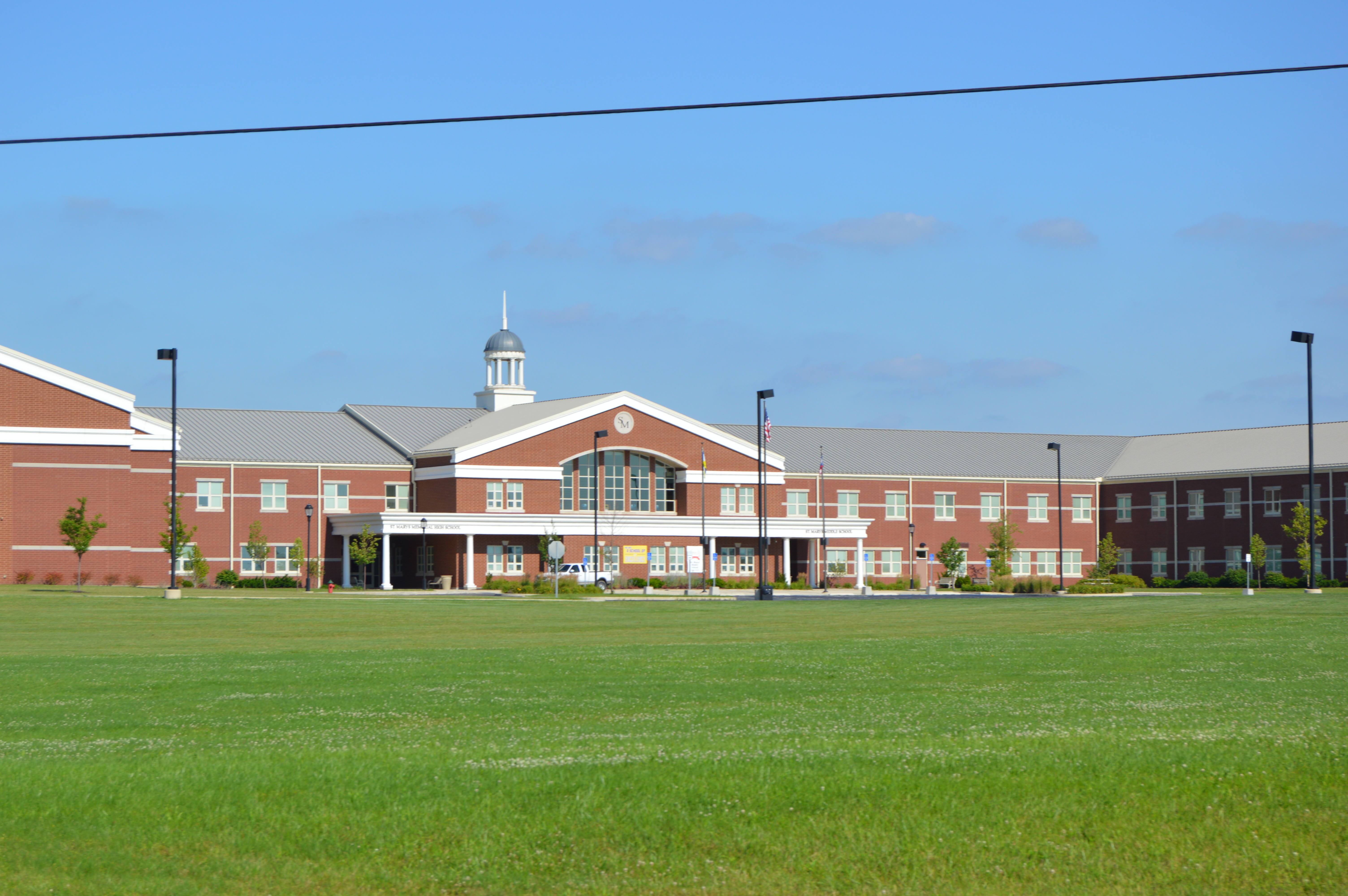 Central section of the facade of St. Marys Memorial High School, seen looking southeast from the junction of County Road 66A and State Route 66 in Noble Township, Auglaize County, Ohio, United States.